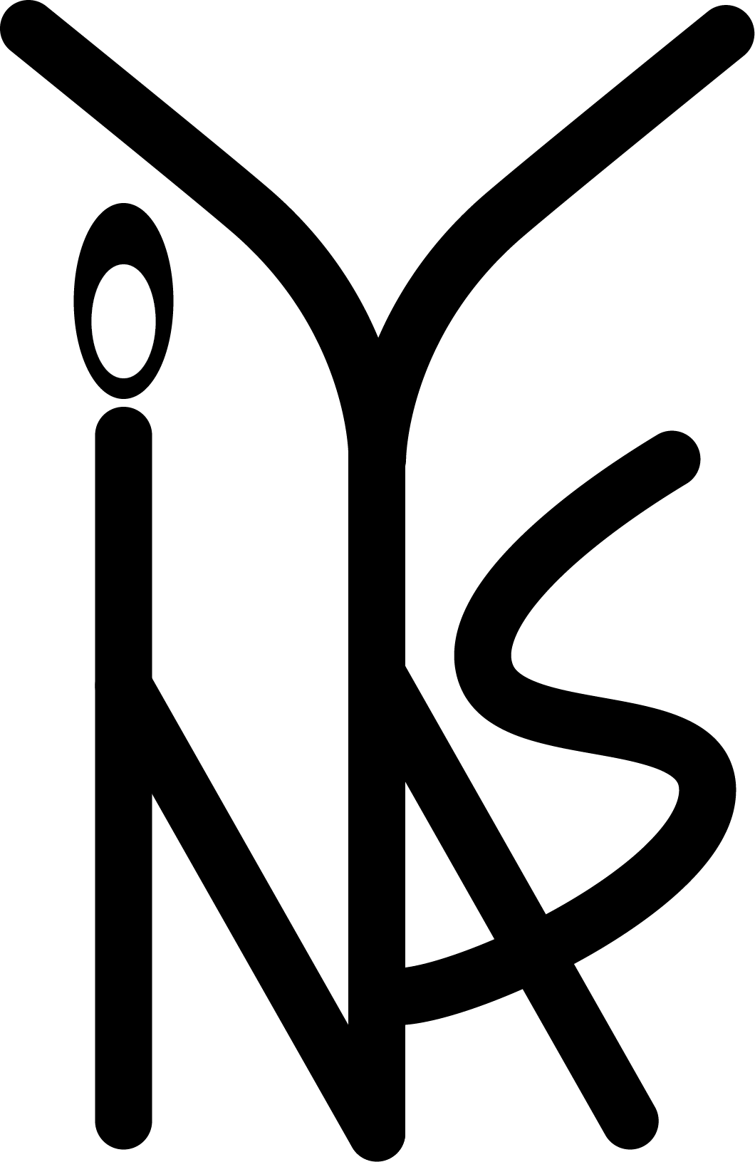 Logo of Indian National Young Academy of Sciences